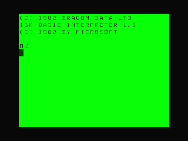 Startup Screen Dragon 32 Phase 2